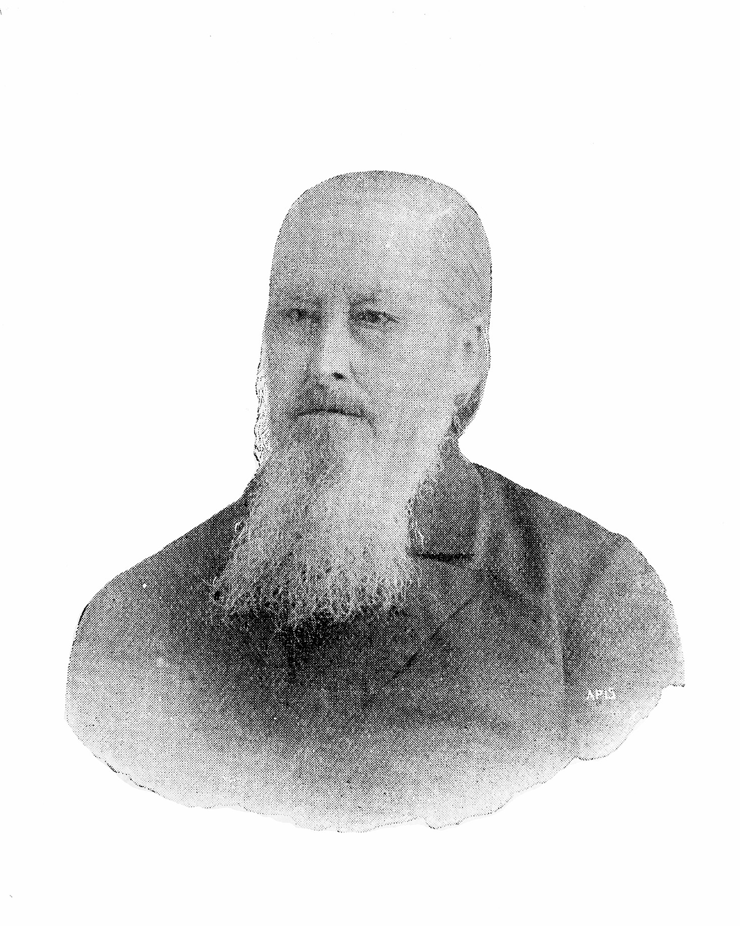 Portrait of Charles Ledger Wellcome Images Keywords: Charles Ledger